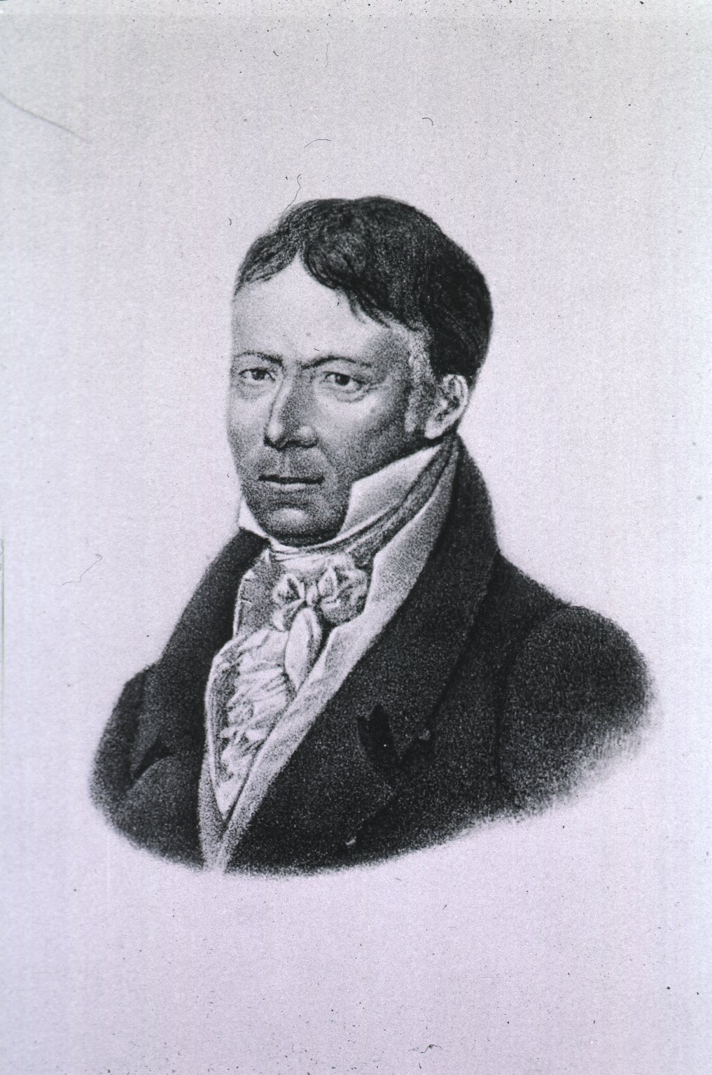 Wojciech Jerzy Boduszyński. Plate 11 from Album Wybitnych Lekarzy Polskich